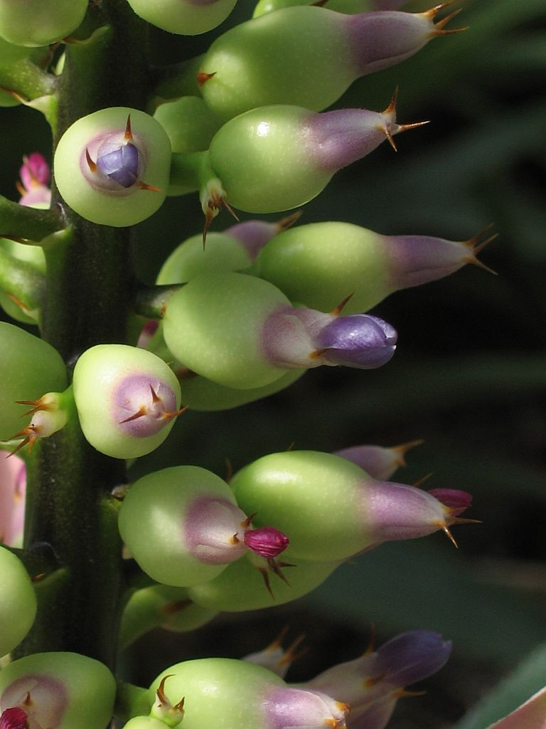 Aechmea castelnavii, in cultivation at the Botanical Garden of Heidelberg, Germany.